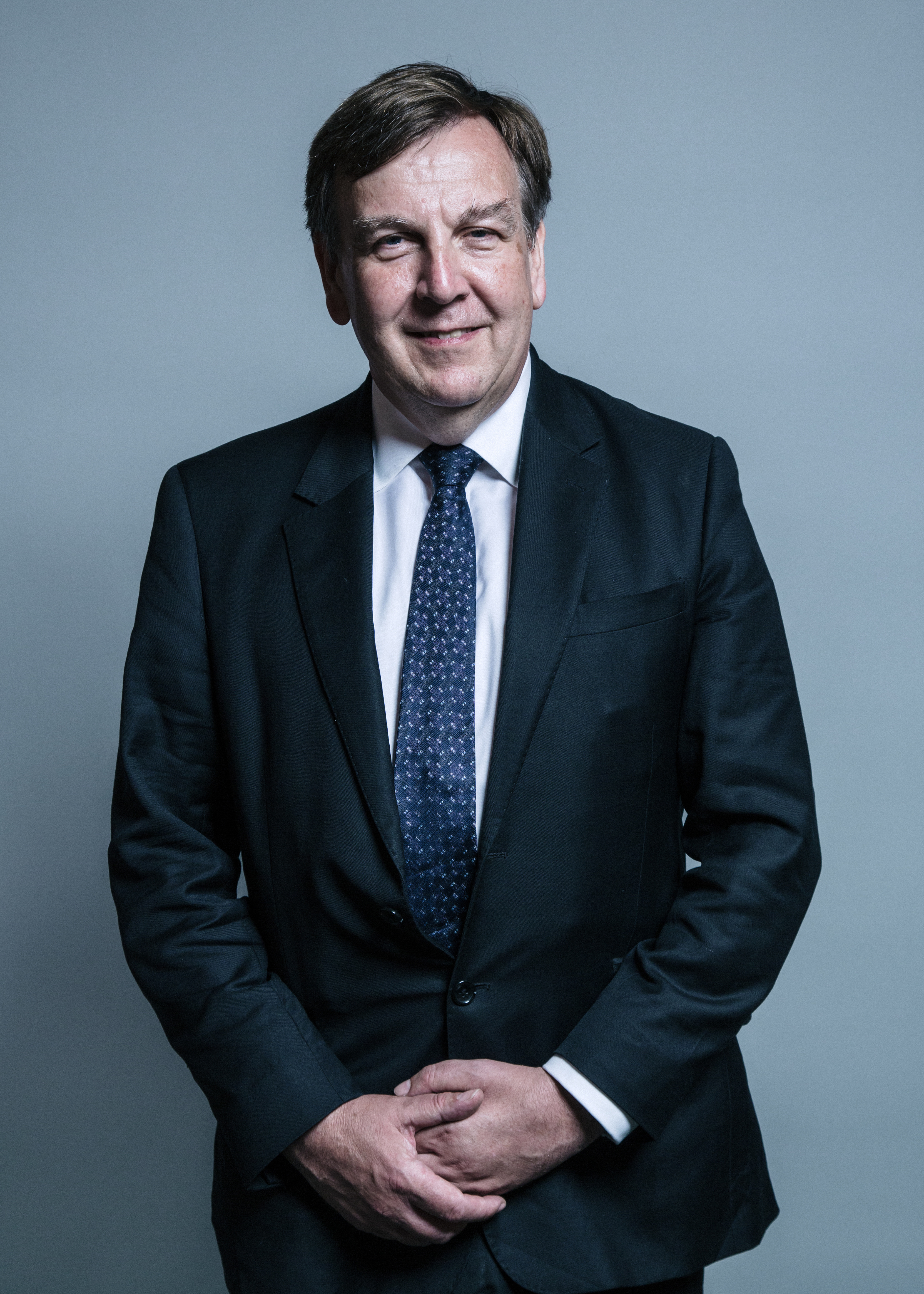 Official portrait of Mr John Whittingdale